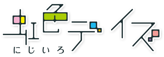 Nijiiro Days logo